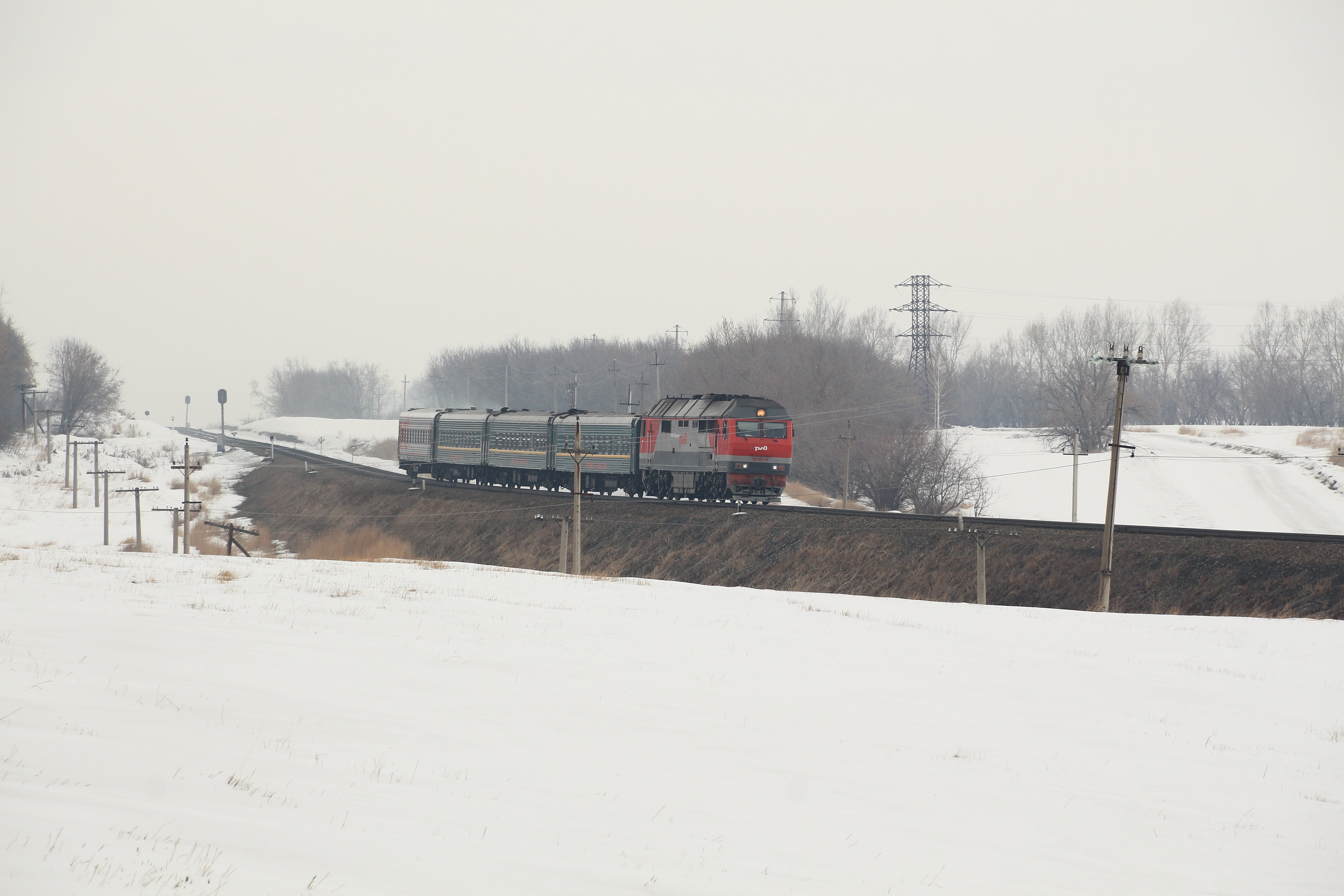 Diesel locomotive TEP70BS-179 with Kalina Krasnaya train runs from Zonalnyy station to Chemrovka station